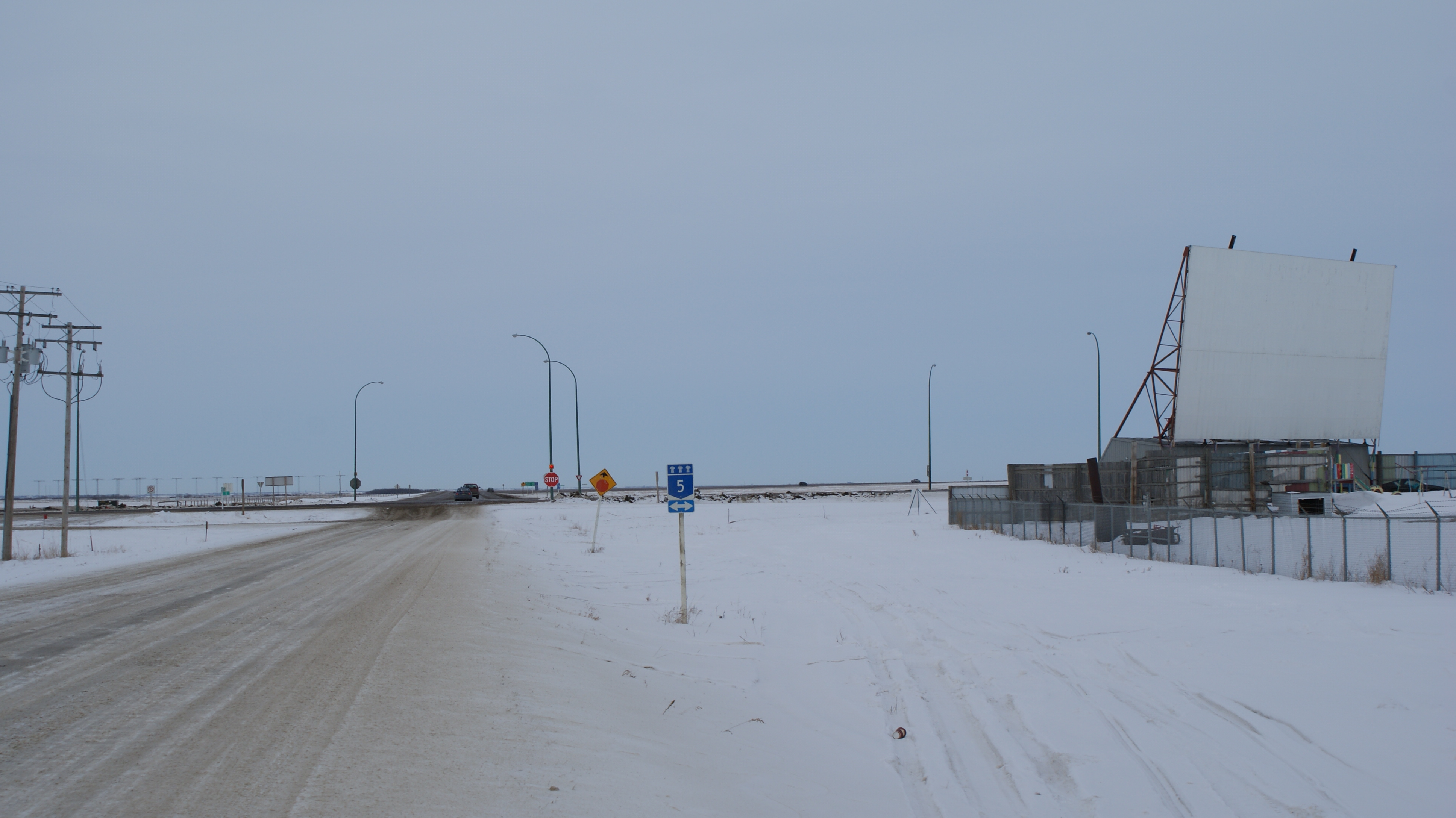 Saskatchewan Highway 5 and Saskatchewan Highway 41 straight ahead